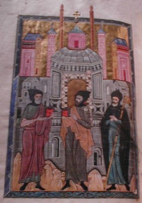 17th century illumination featuring Evagrius Ponticus (left), John of Sinai, and someone else identity unknown. This photograph was taken by a visitor to the Manoogian Museum in Southfield, MI (where the original manuscript resides).